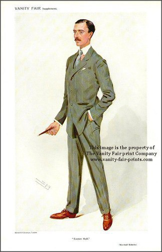 Men of the Day No.1267: Caricature of Marshall O Roberts[1]. Caption reads: "Easton Hall"